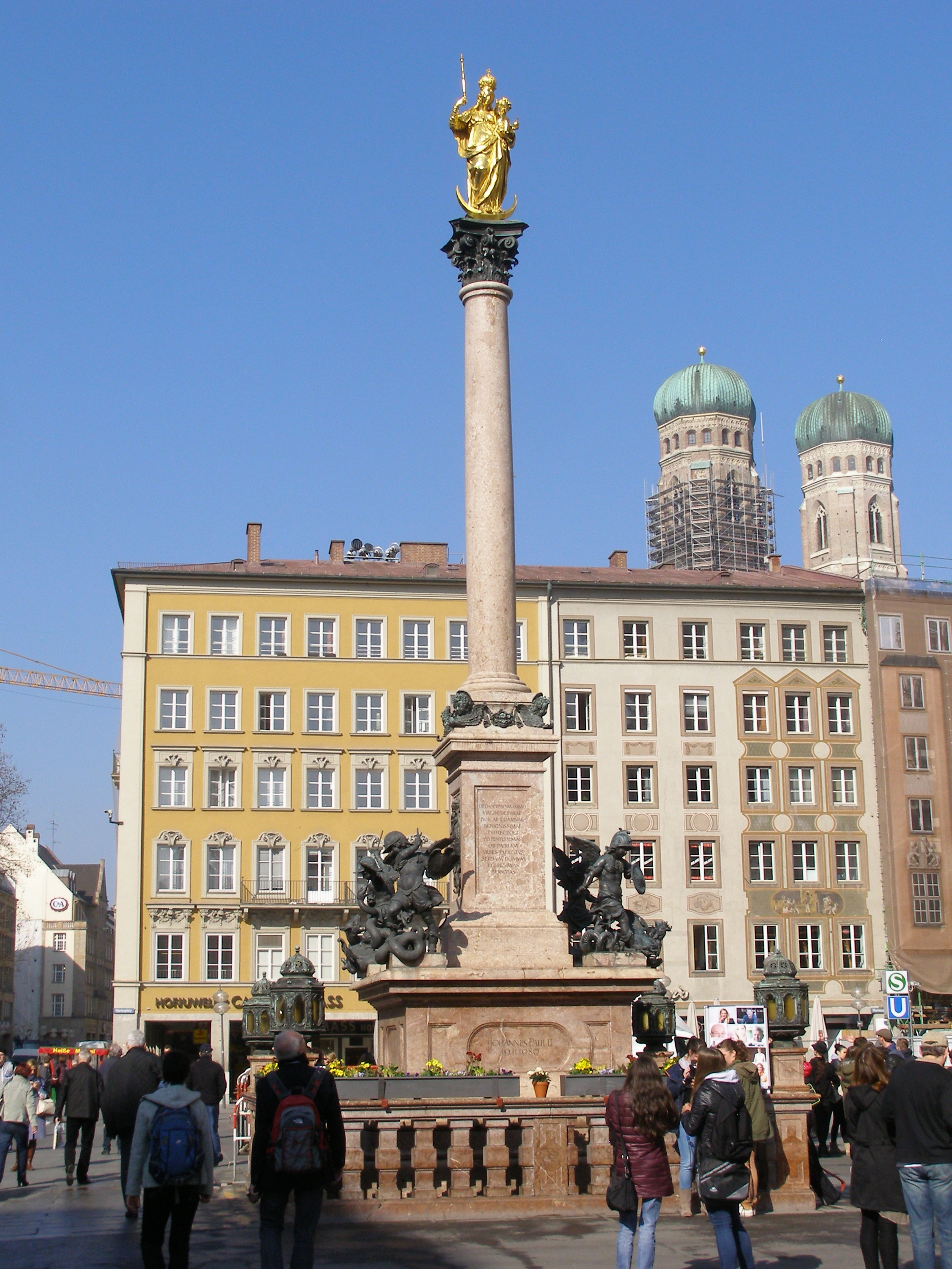 Munich - Marian Column